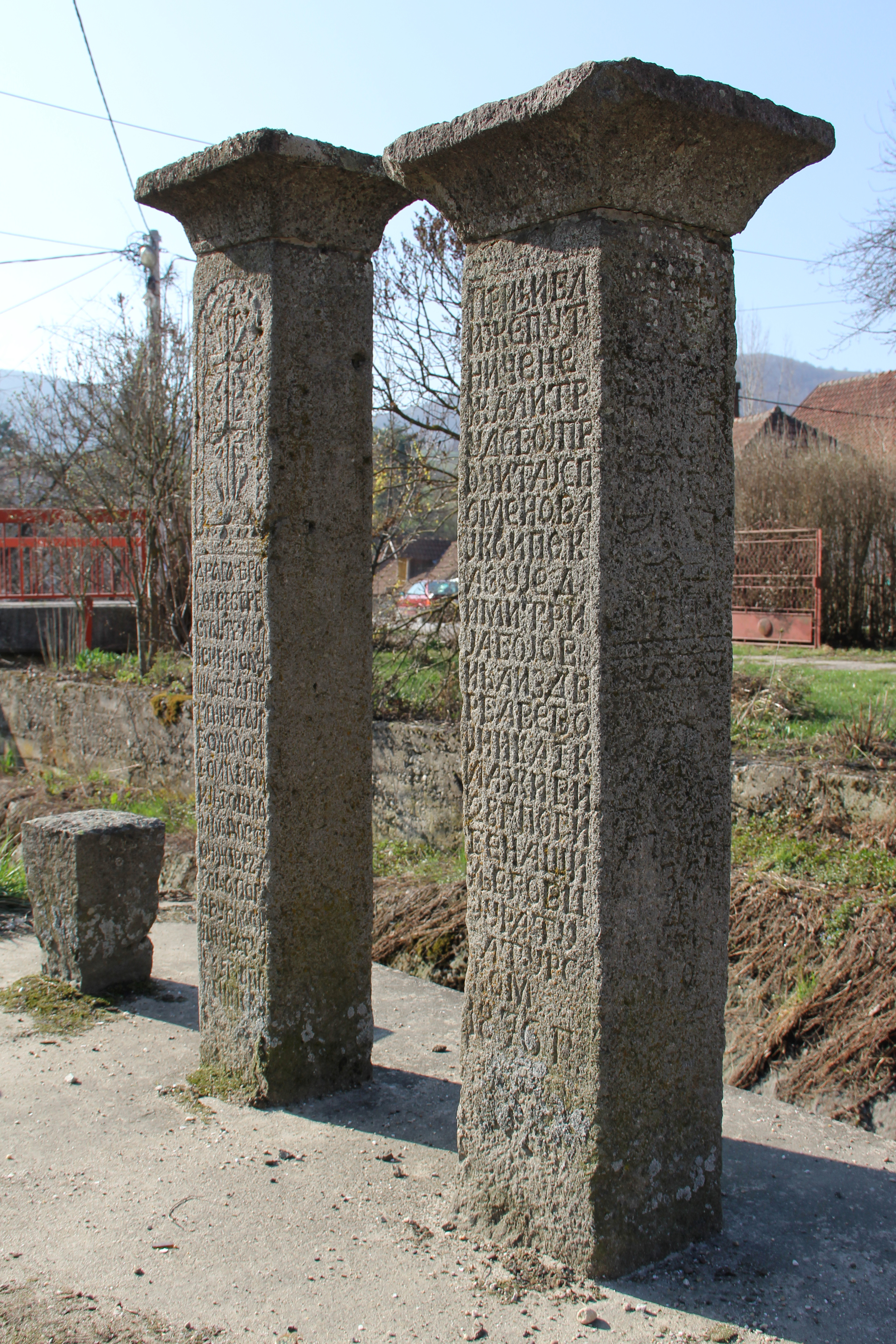 Roadside tombstones erected in memory of Ilija Mijatovic and Dimitrije Bojovic, located in the village of Donja Vrbava (the municipality of Gornji Milanovac), Serbia.